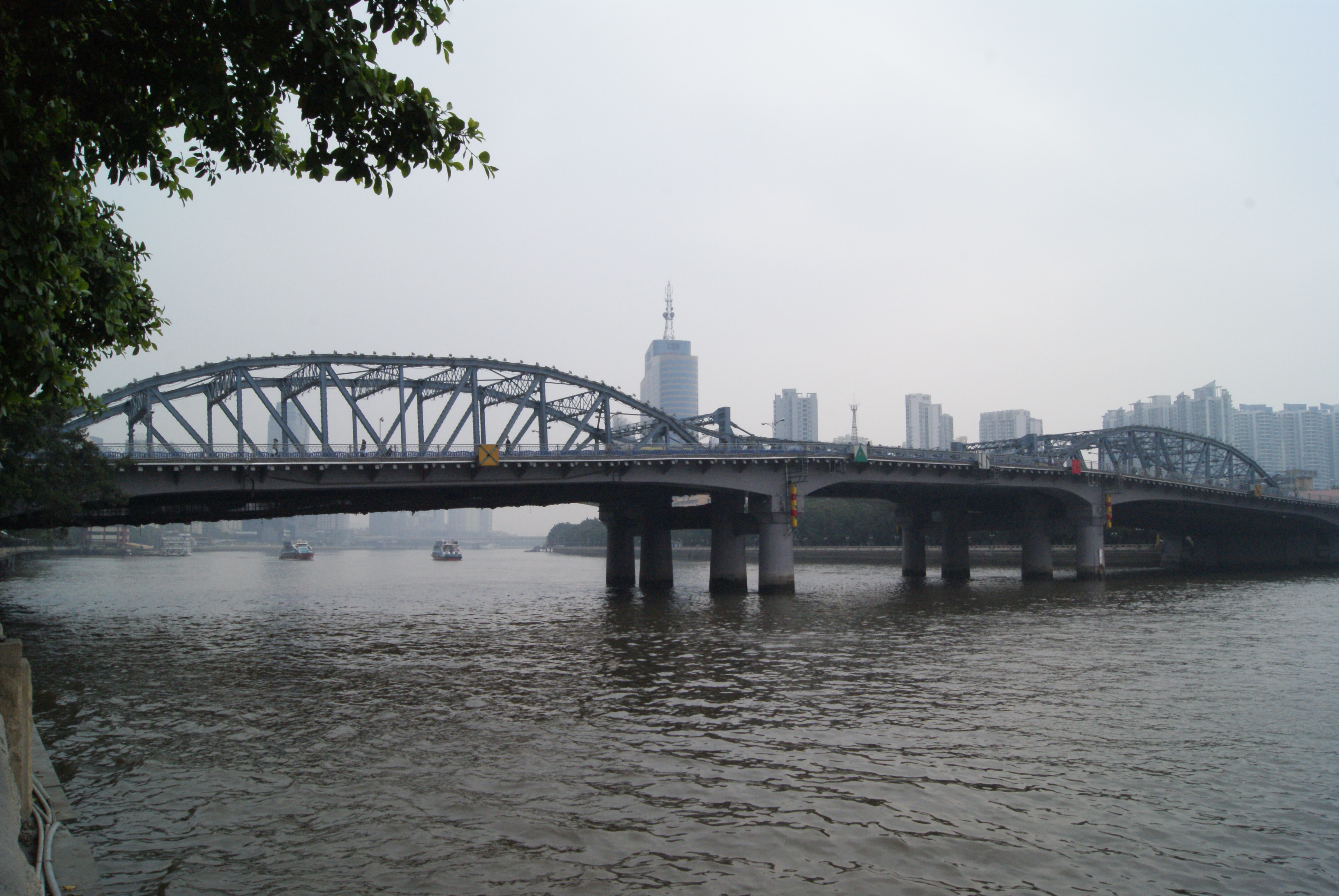 haizhu bridge of guangzhou,china